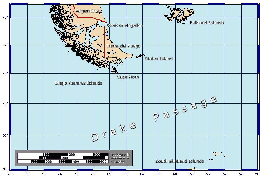 A map showing the area of South America around Cape Horn, including the Drake Passage and the South Shetland Islands. Generated using GMT.